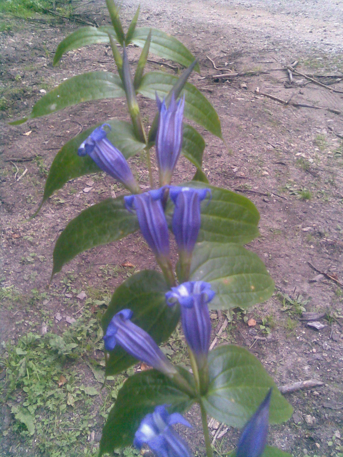 Willow Gentian (Gentiana asclepiadea) in Şureanu Mountains, Transylvania.